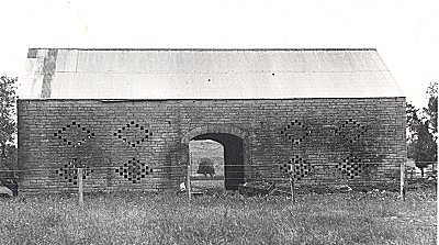 Warbys Barn and Stables: Warby's Barn; before conversion to flats